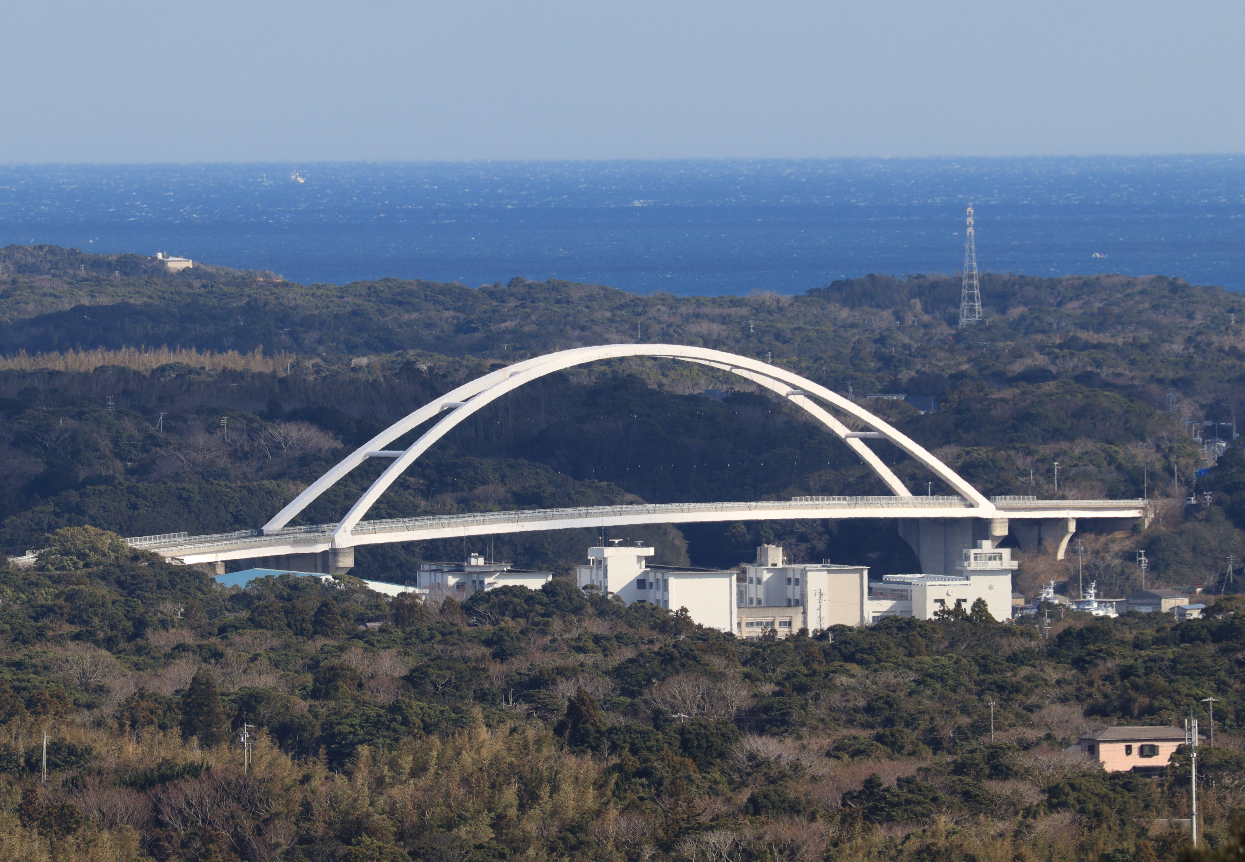 Shima Pearl Bridge of Route 260 seen from observation deck on Mount Konpira in Shima, Mie Prefecture, Japan.